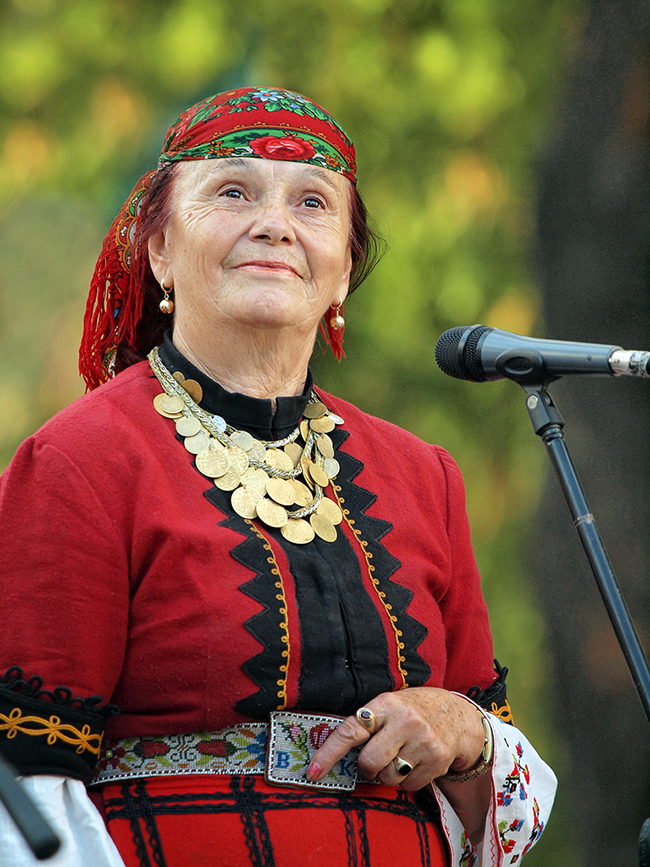 Valya Balkanska, a photo from a concert